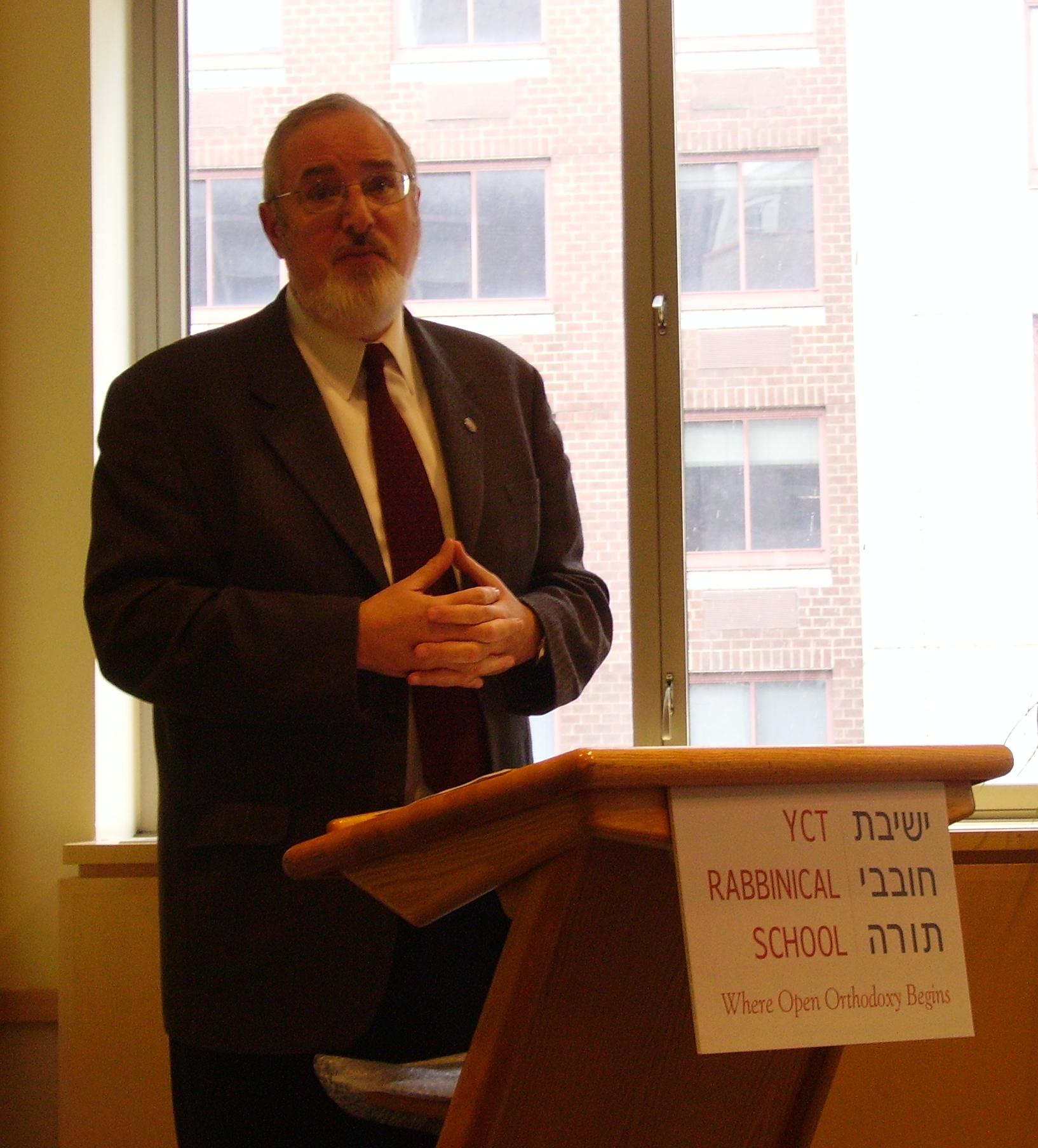 Rabbi Marc Angel speaking at Yeshivat Chovevei Torah Rabbinical School's first ever Irving S. Weinstein Memorial Award and Lecture for the Advancement of Interdenominational Cooperation on 20 May 2008.